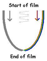 Diagram of structure of film "Memento". The movie alternates between showing black-and-white snippets of the hotel room phone call (in correct temporal order) and in-color snippets of the main action (each one ending where the preceding snipped began).